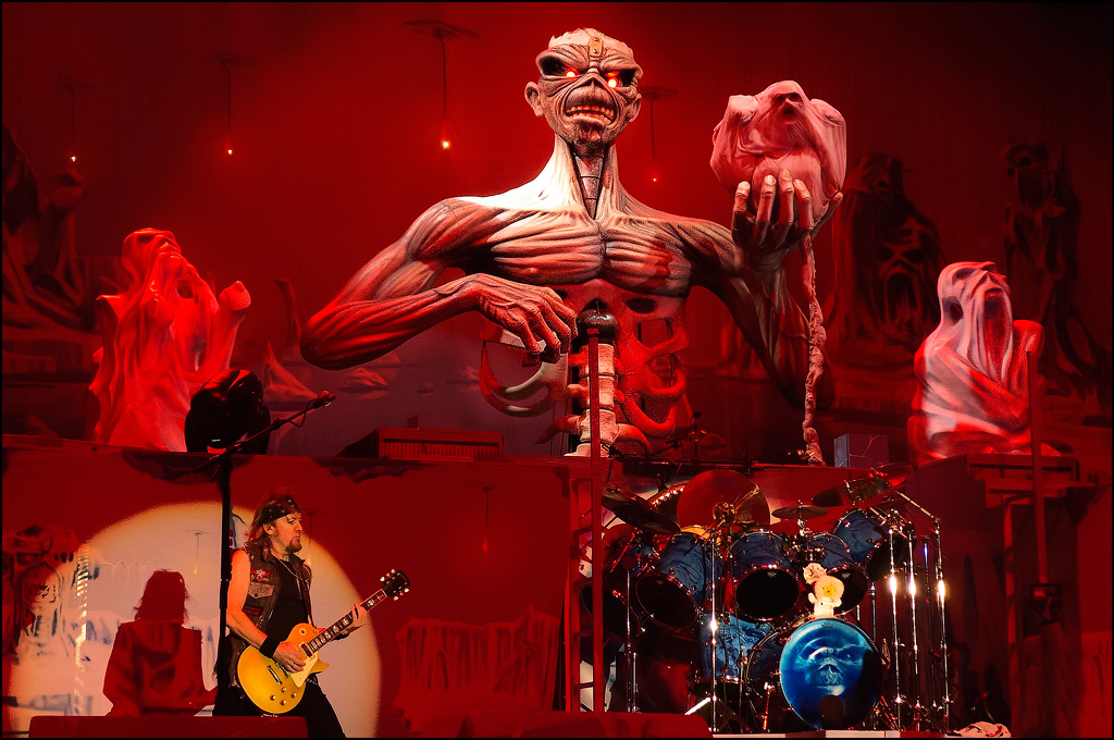 Iron Maiden, Sonisphere Madrid 31/05/2013